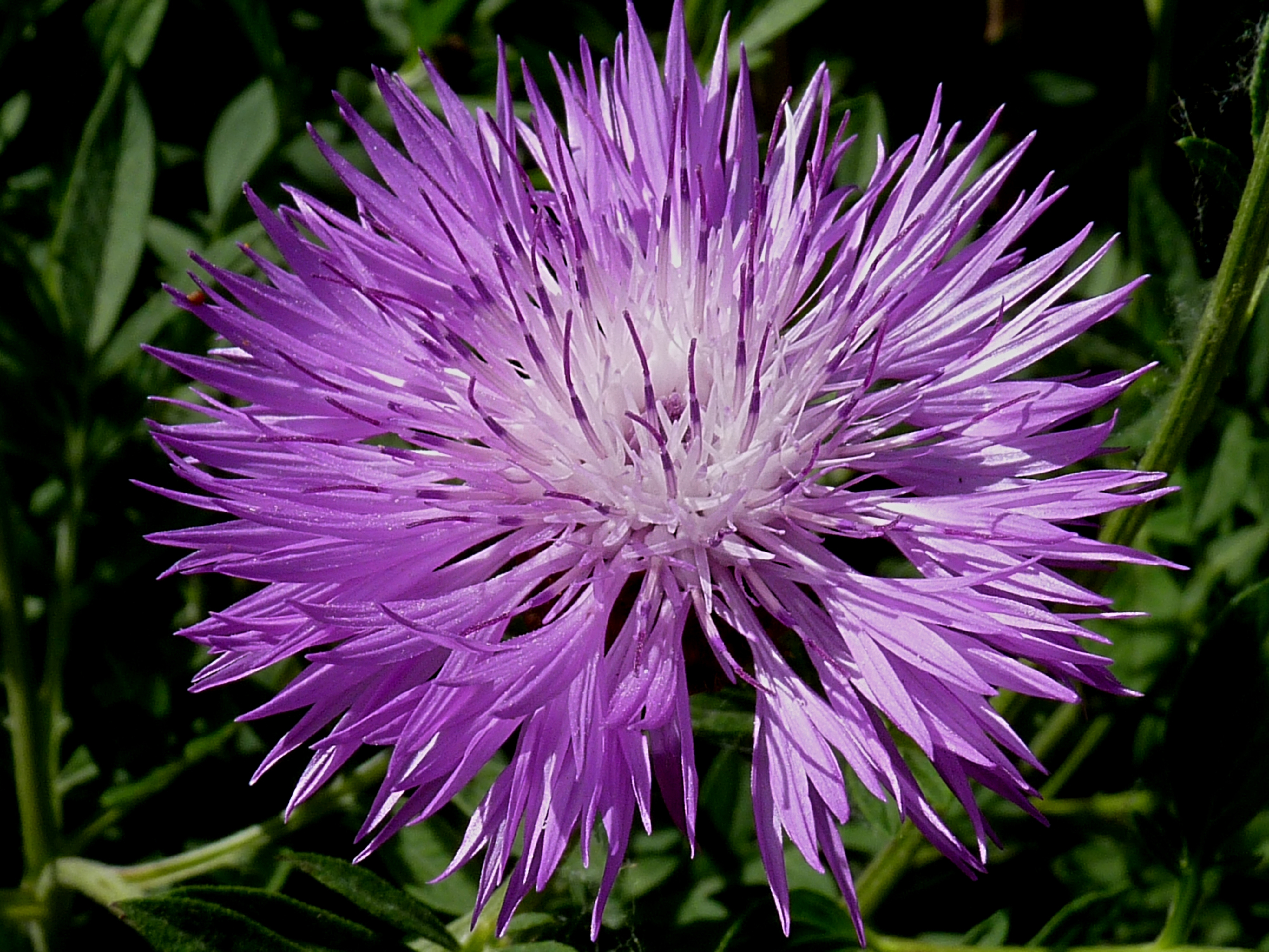 Centaurea dealbata 'Steenbergii', in a garden in Belgium.